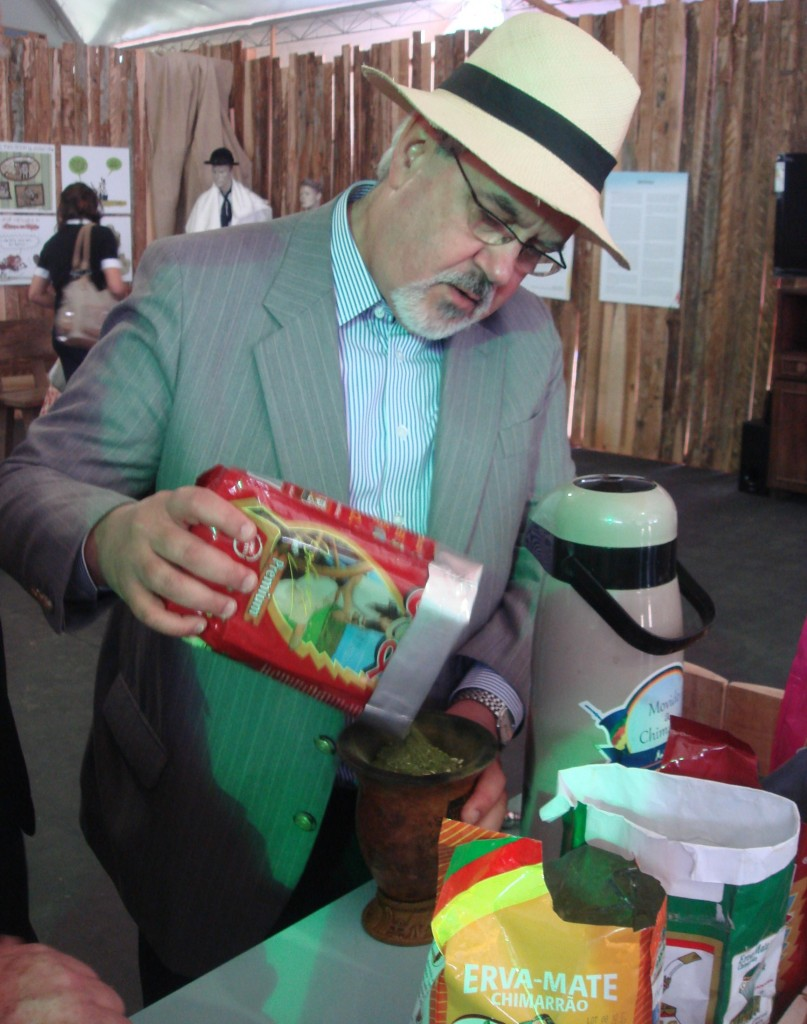 The Brazilian writer and politician Luiz Antonio de Assis Brasil